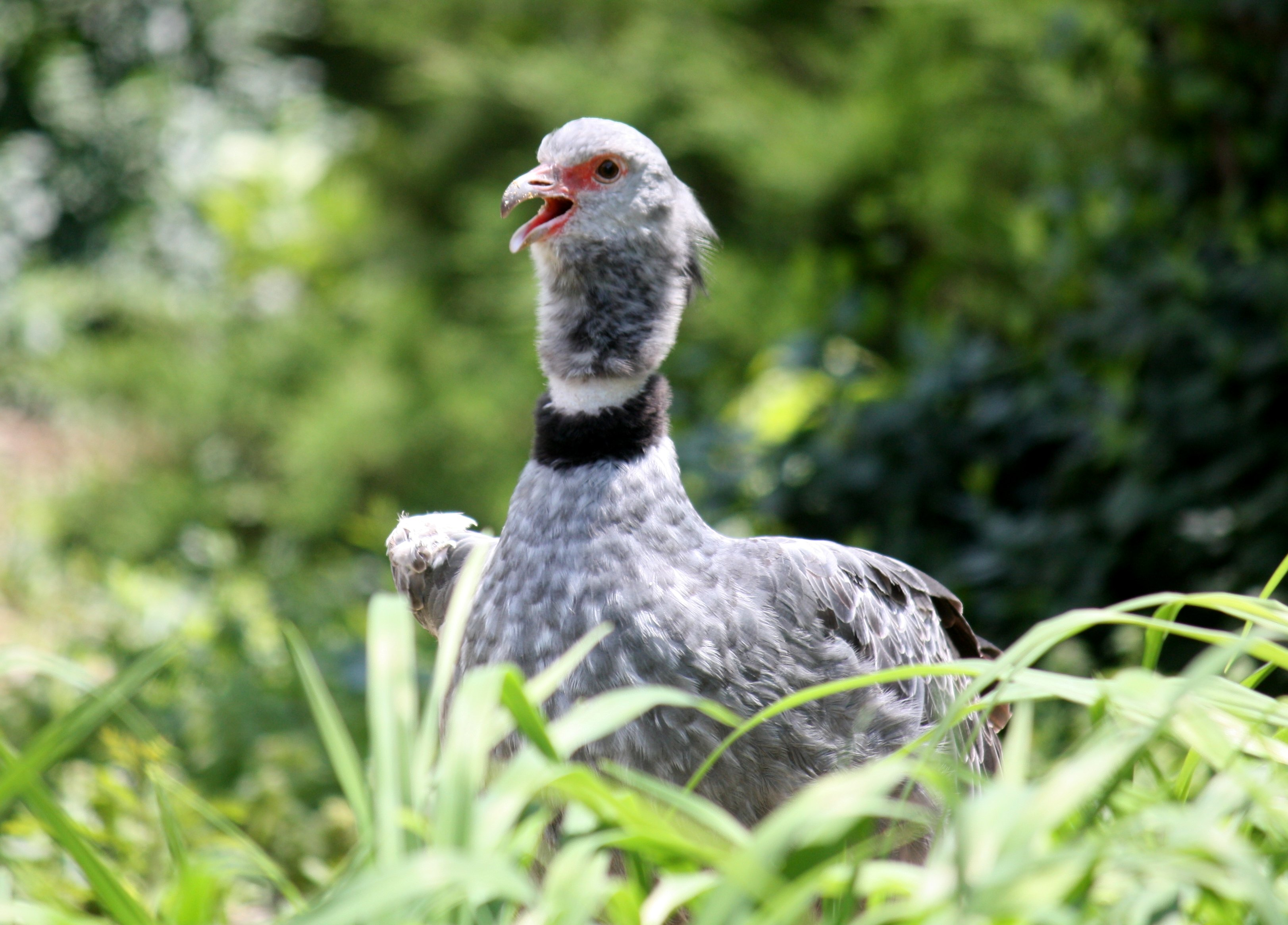 Chauna torquata in Louisville Zoo